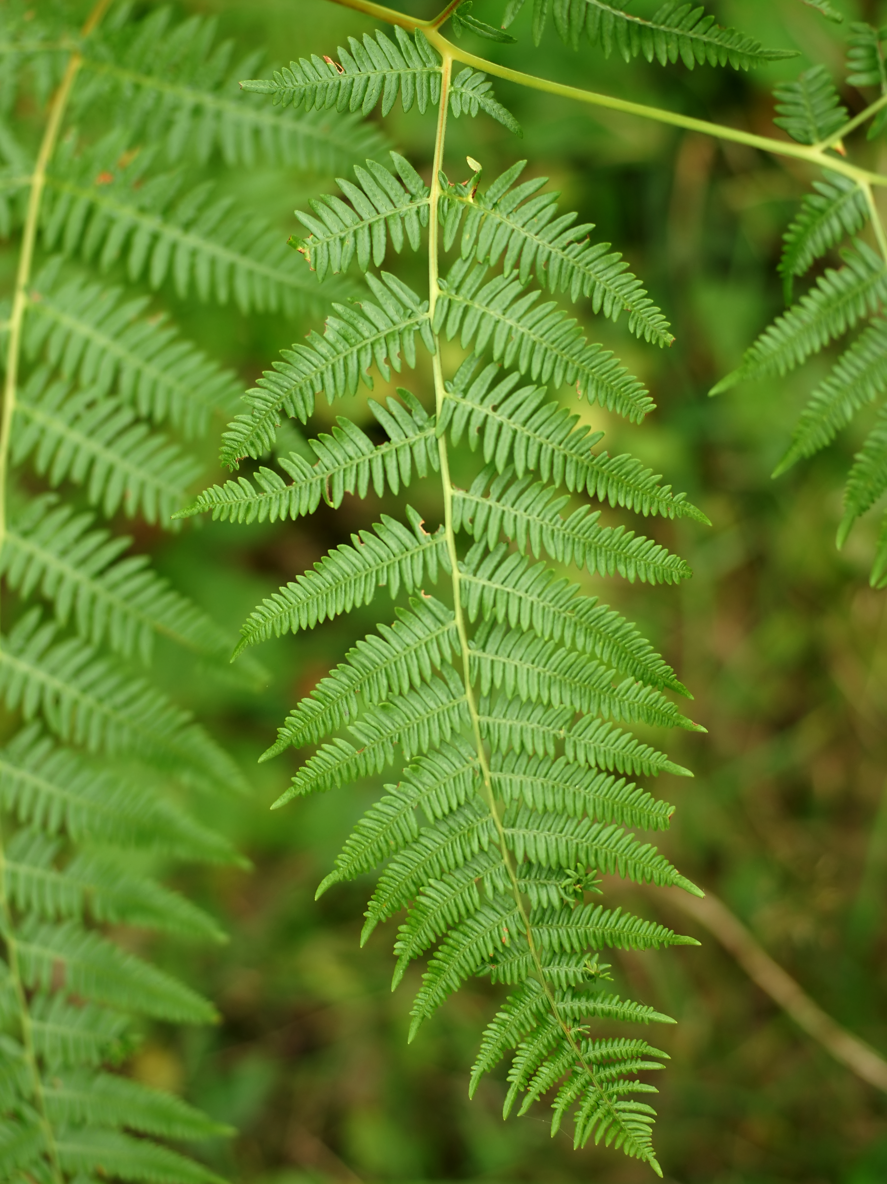 Common bracken near Bioussac, Charente, France.